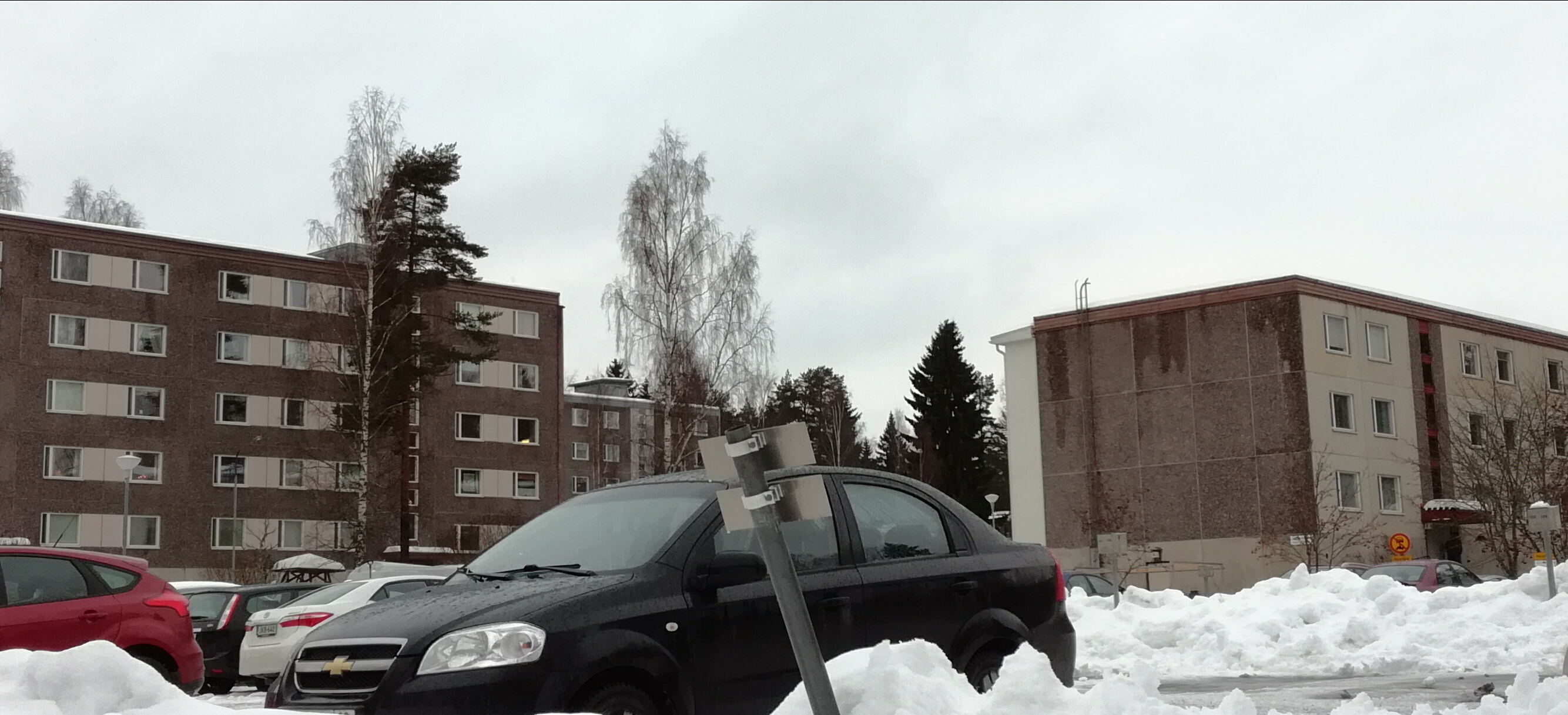 Sulku, Huhtasuo, Jyväskylä, Finland